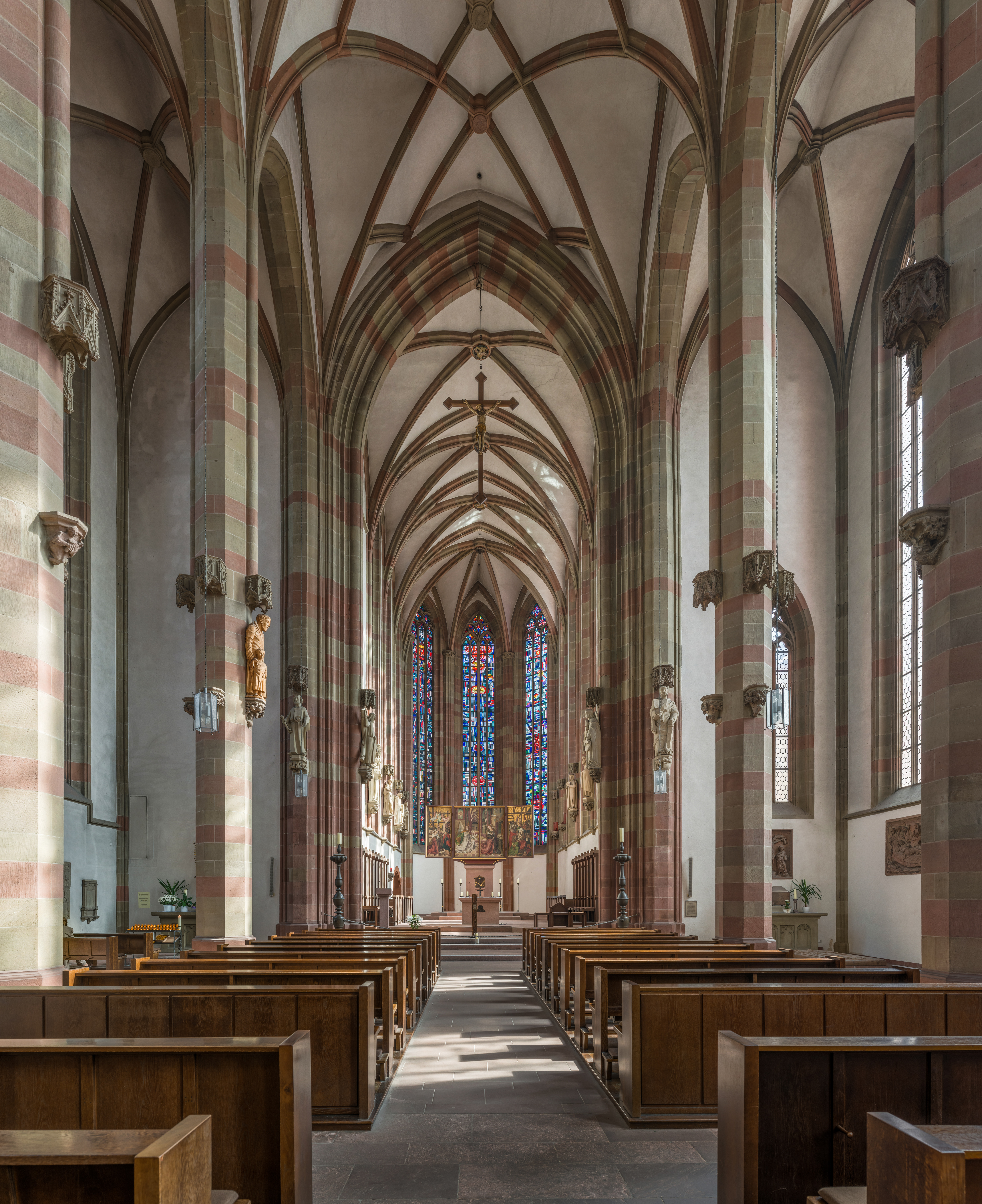 The nave of the Marienkapelle, Würzburg This is a photograph of an architectural monument.